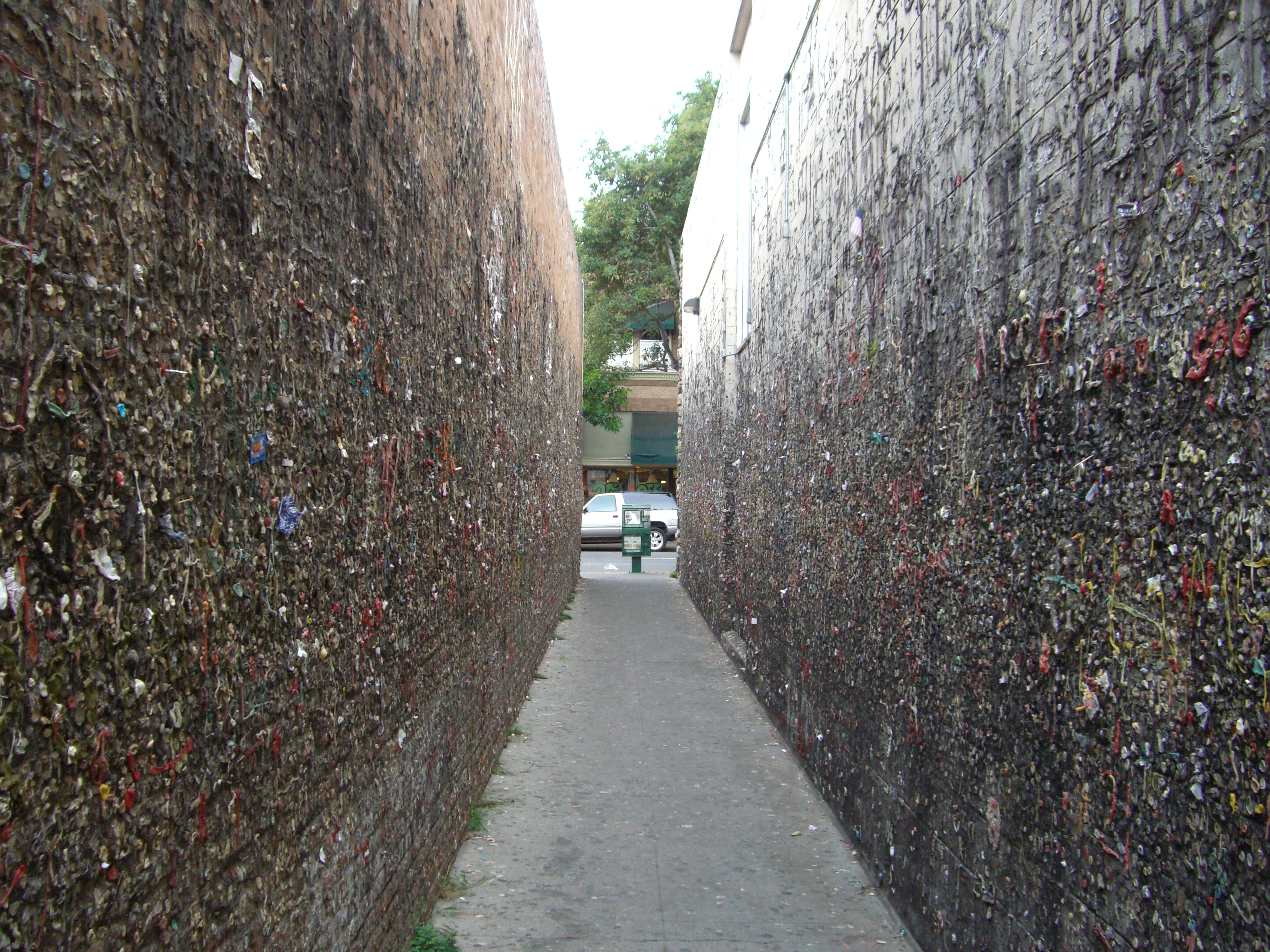 Bubble Gum Alley in San Luis Obispo, California.